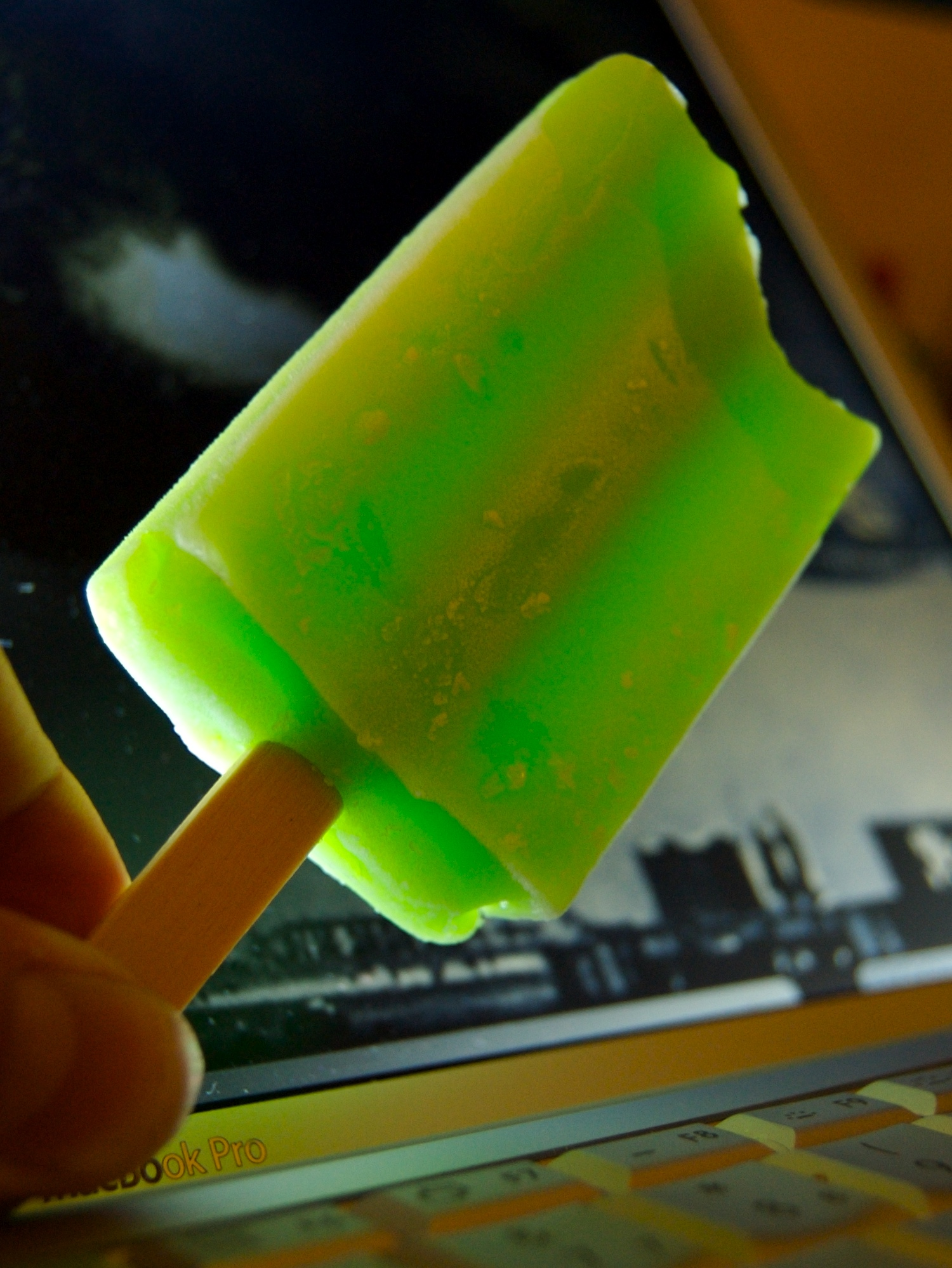 Green ice pop